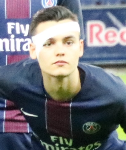 UEFA Youth league round of 16